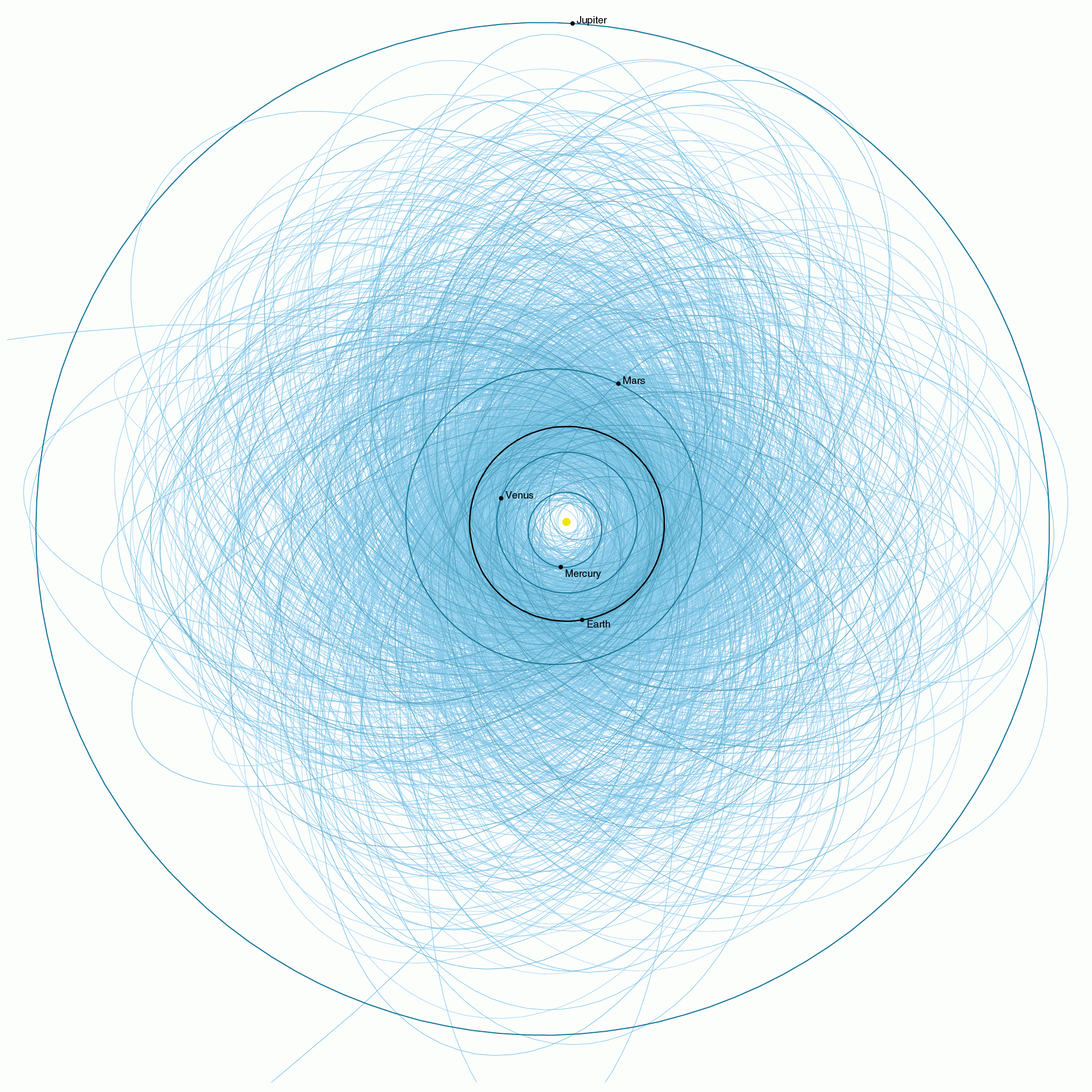 Lightness-reversed cropped plot of orbits of all the known Potentially Hazardous Asteroids (PHAs), numbering over 1,400 as of early 2013. These are the asteroids considered hazardous because they are fairly large (at least 460 feet or 140 meters in size), and because they follow orbits that pass close to the Earth's orbit (within 4.7 million miles or 7.5 million kilometers).